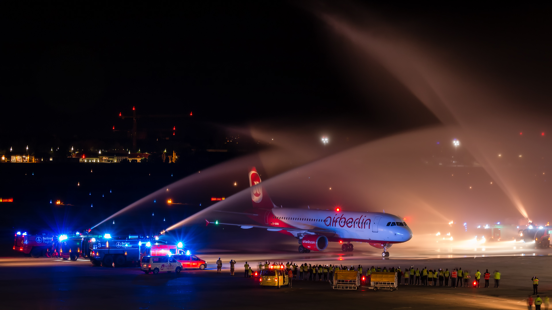 The last flight of Air Berlin from Munich to Tegel.